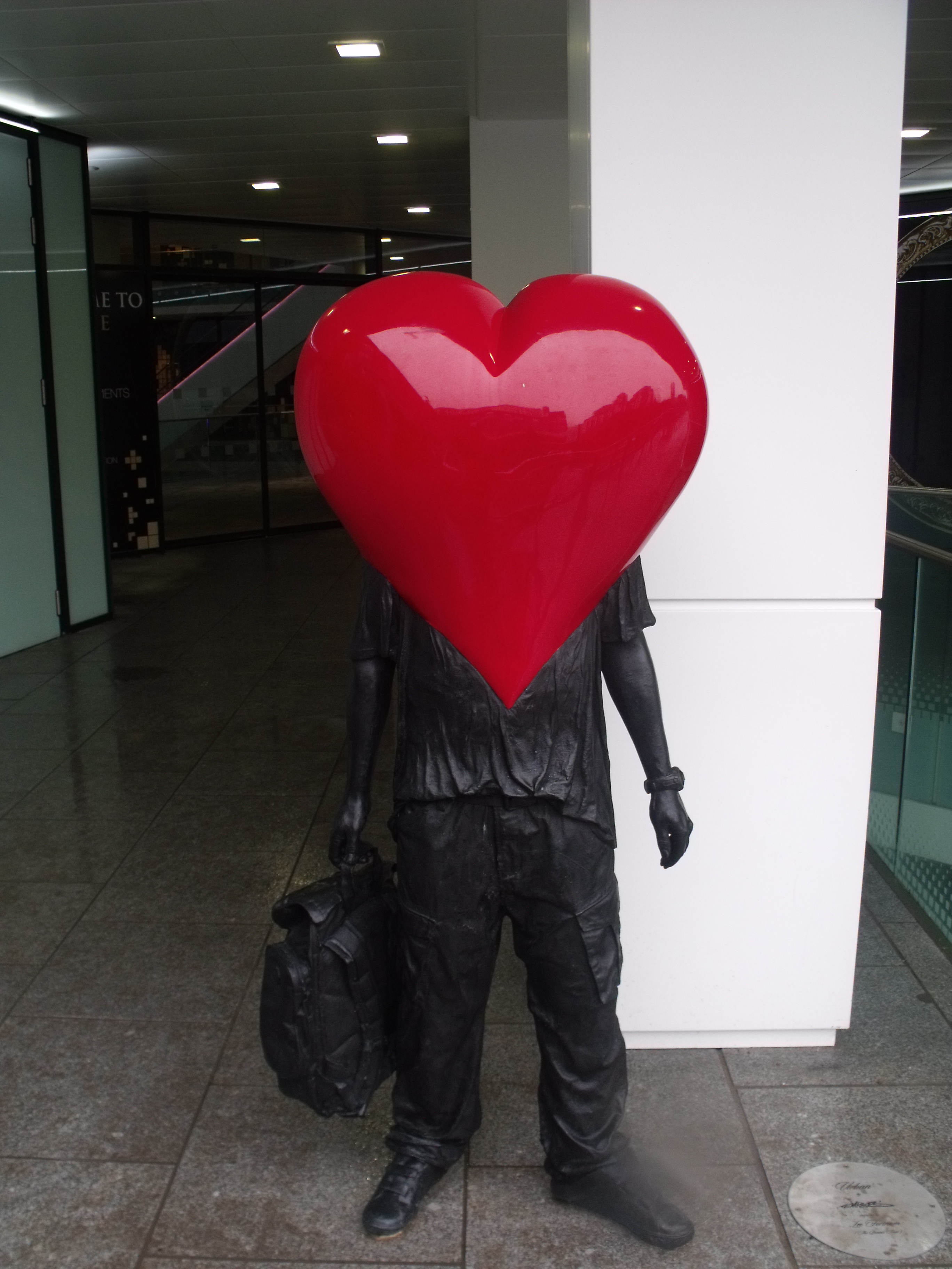 The Cube has been open since 2010. The Lovely People The sculptor is called Temper. Think this one outside is called Urban.